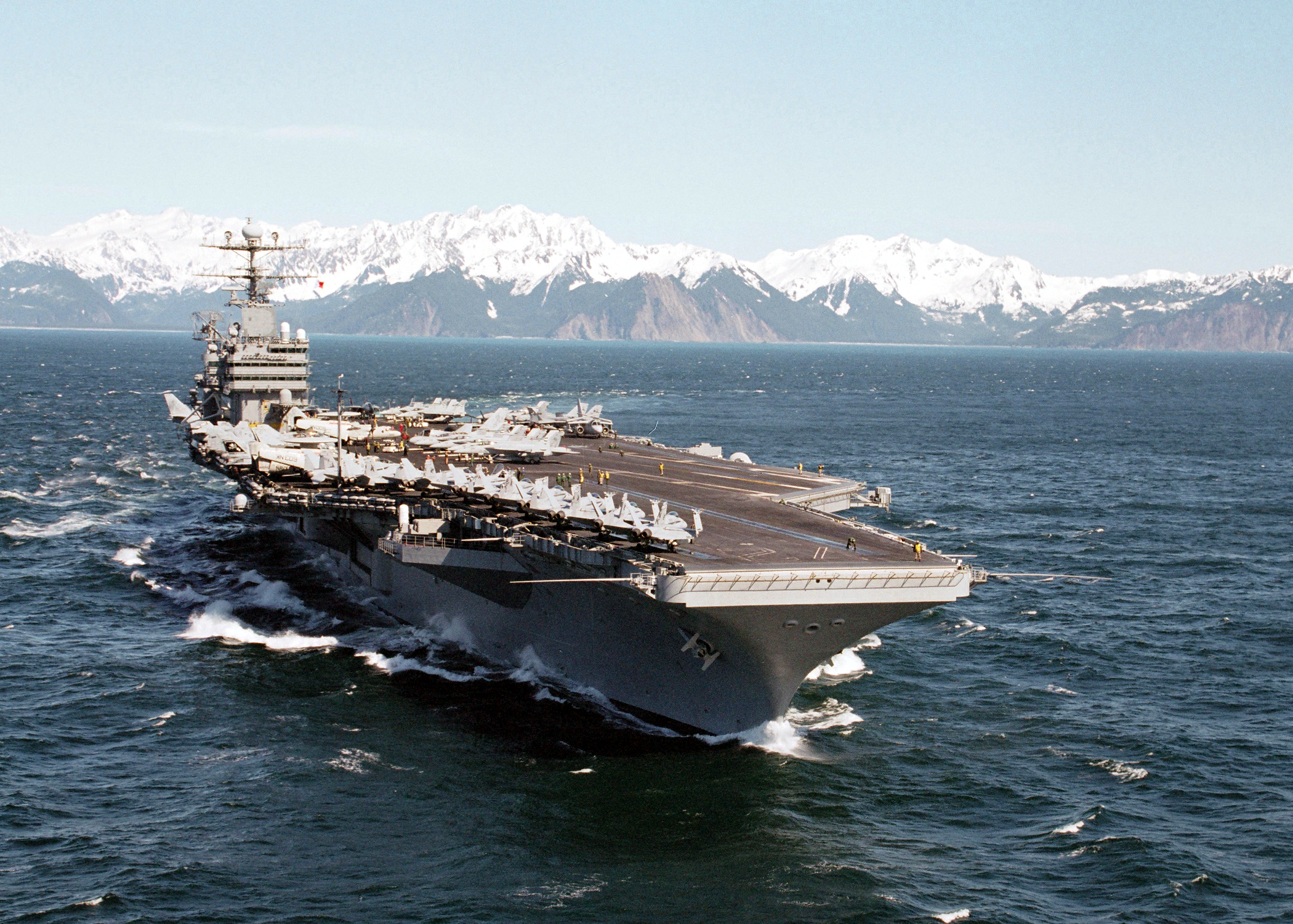 At sea with USS Abraham Lincoln (CVN 72) Apr. 19, 2002 -- USS Abraham Lincoln prepares for flight operations in the Gulf of Alaska as part of the joint training exercise, “Northern Edge” 2002. Approximately 7, 500 active duty service personnel will train at military installations, ranges, and the port of Valdez during the multi-service exercise. U.S. Navy photo by Photographer's Mate 3rd Class Kittie VandenBosch. (RELEASED)